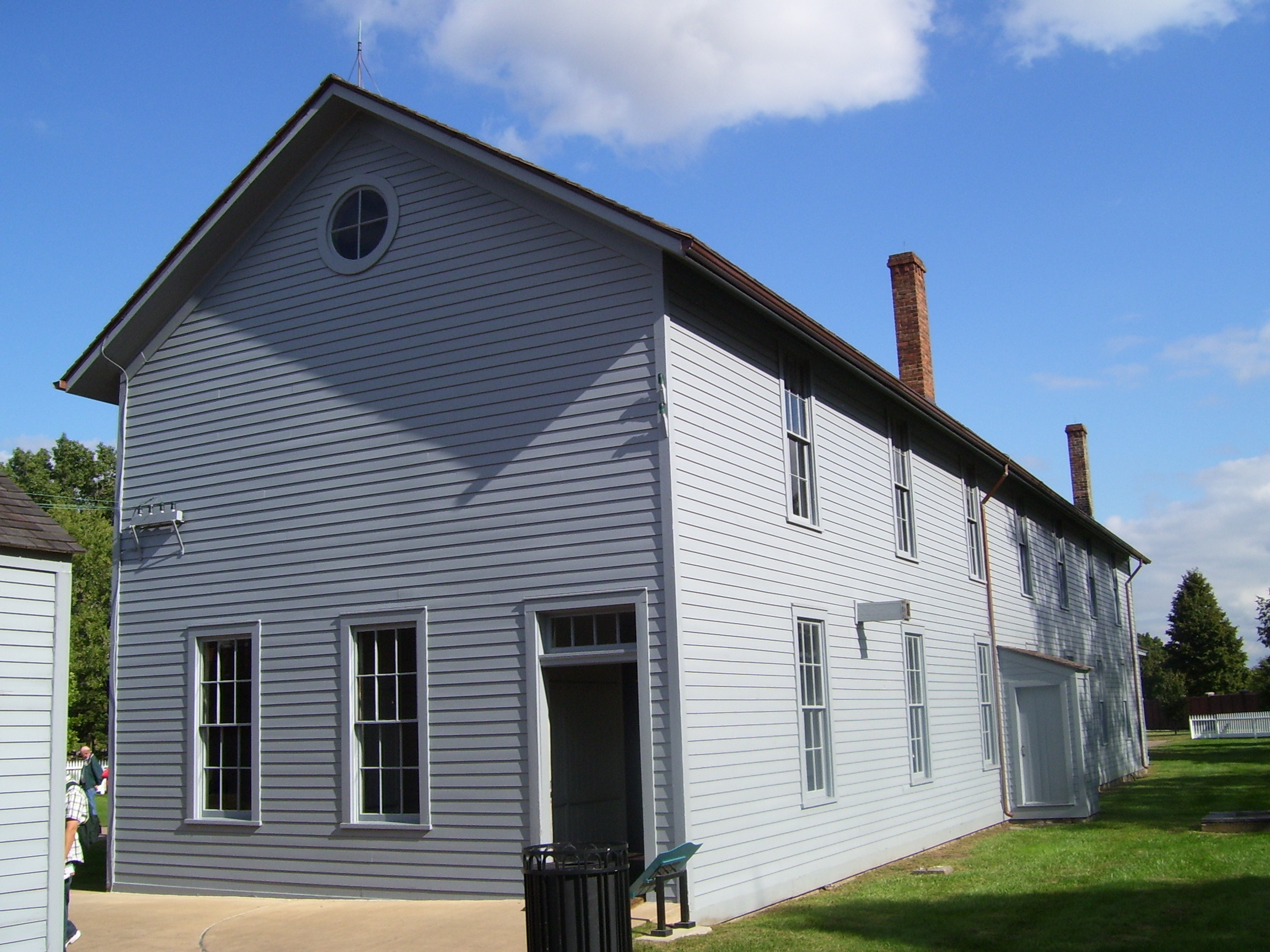 Menlo Park Laboratory of Thomas Edison site of the Invention of the light bulb. Currently, it is located in Dearborn, Michigan at Greenfield Village, part of The Henry Ford Museum. It was moved to the location by Henry Ford from its original location in Menlo Park, New Jersey.